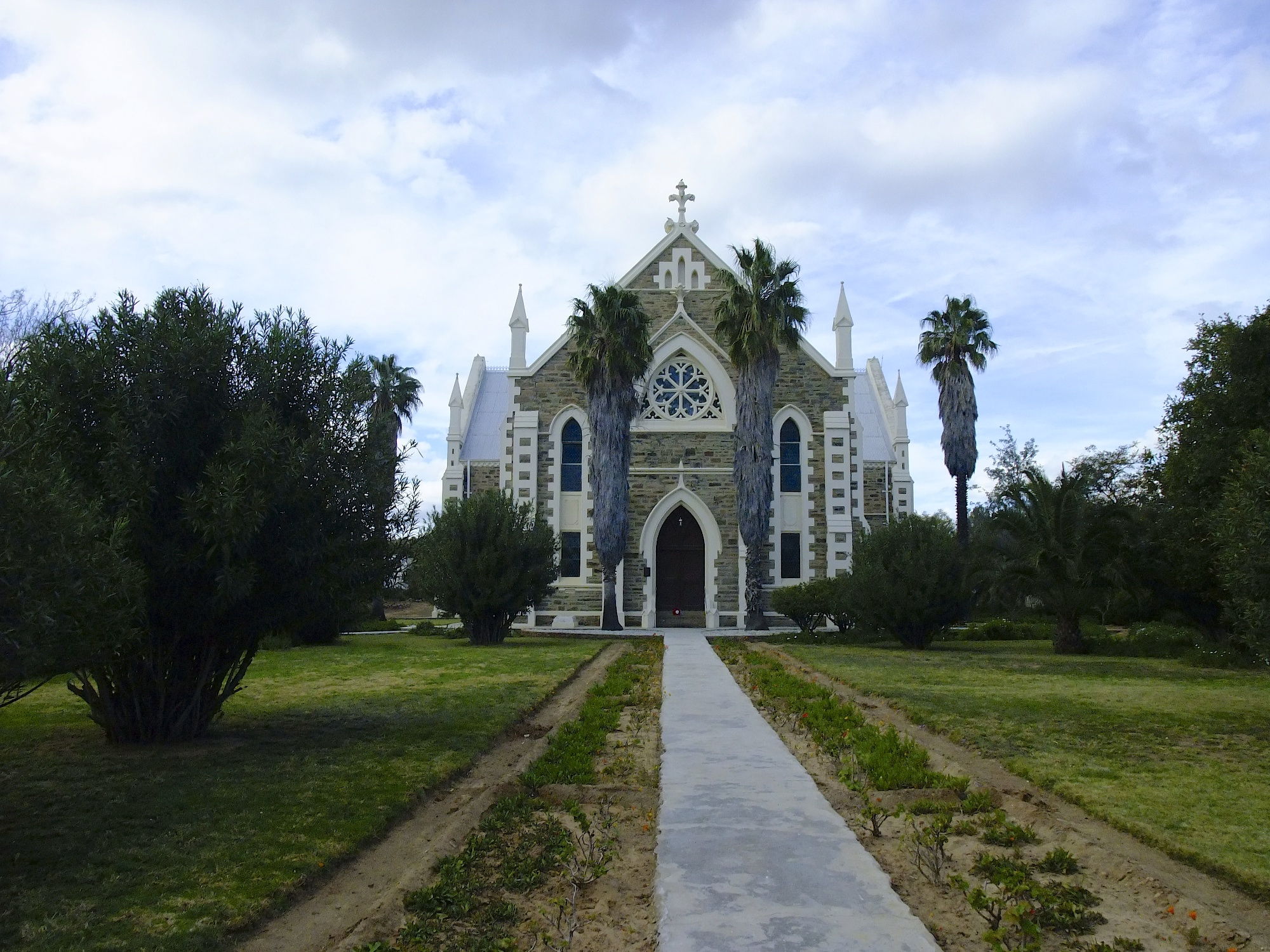 Dutch Reformed Church in Jansenville This media shows a South African Protected Site with SAHRA file reference 9/2/046/0007.